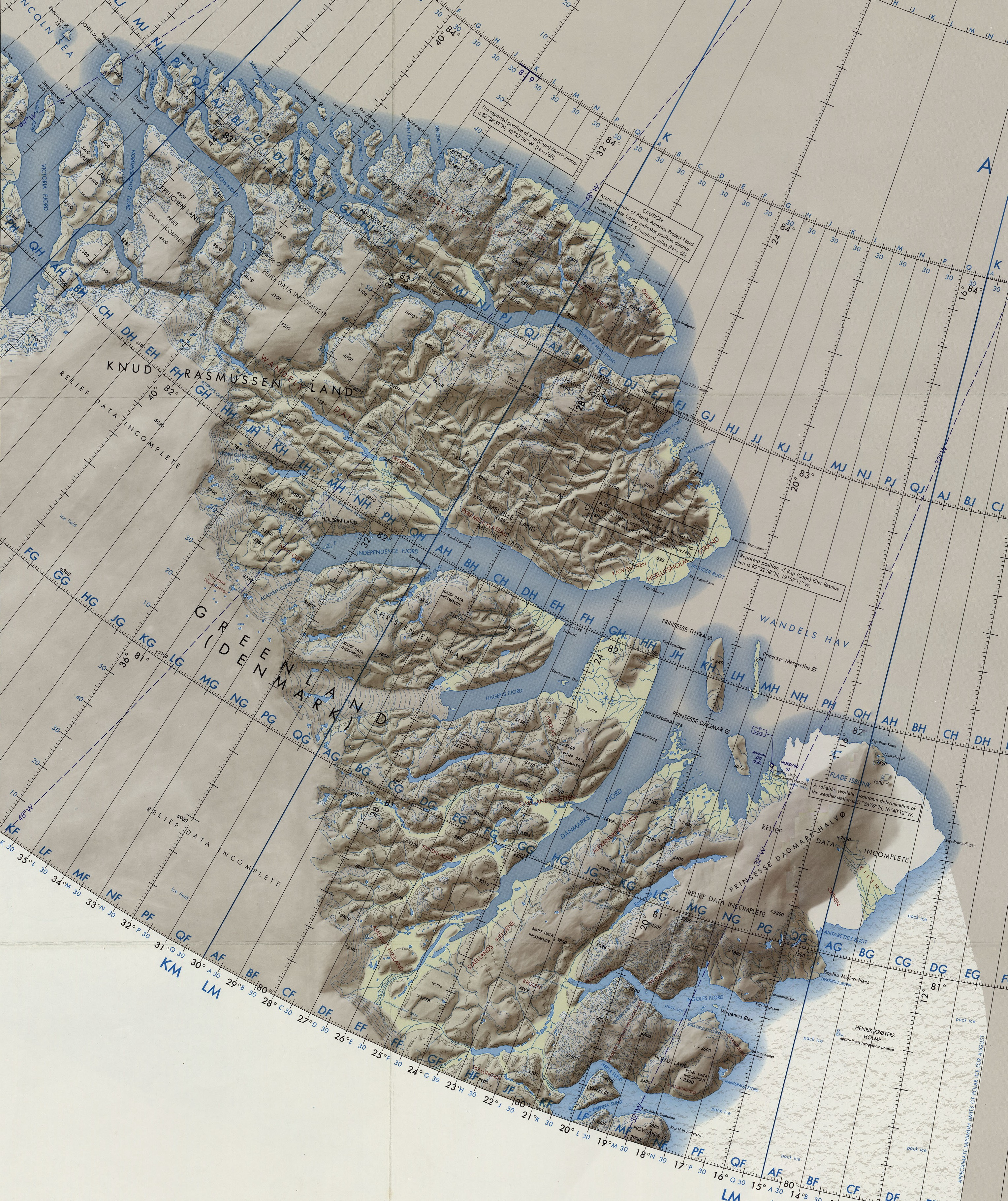 ONC map of North Greenland at scale 1:1,000,000